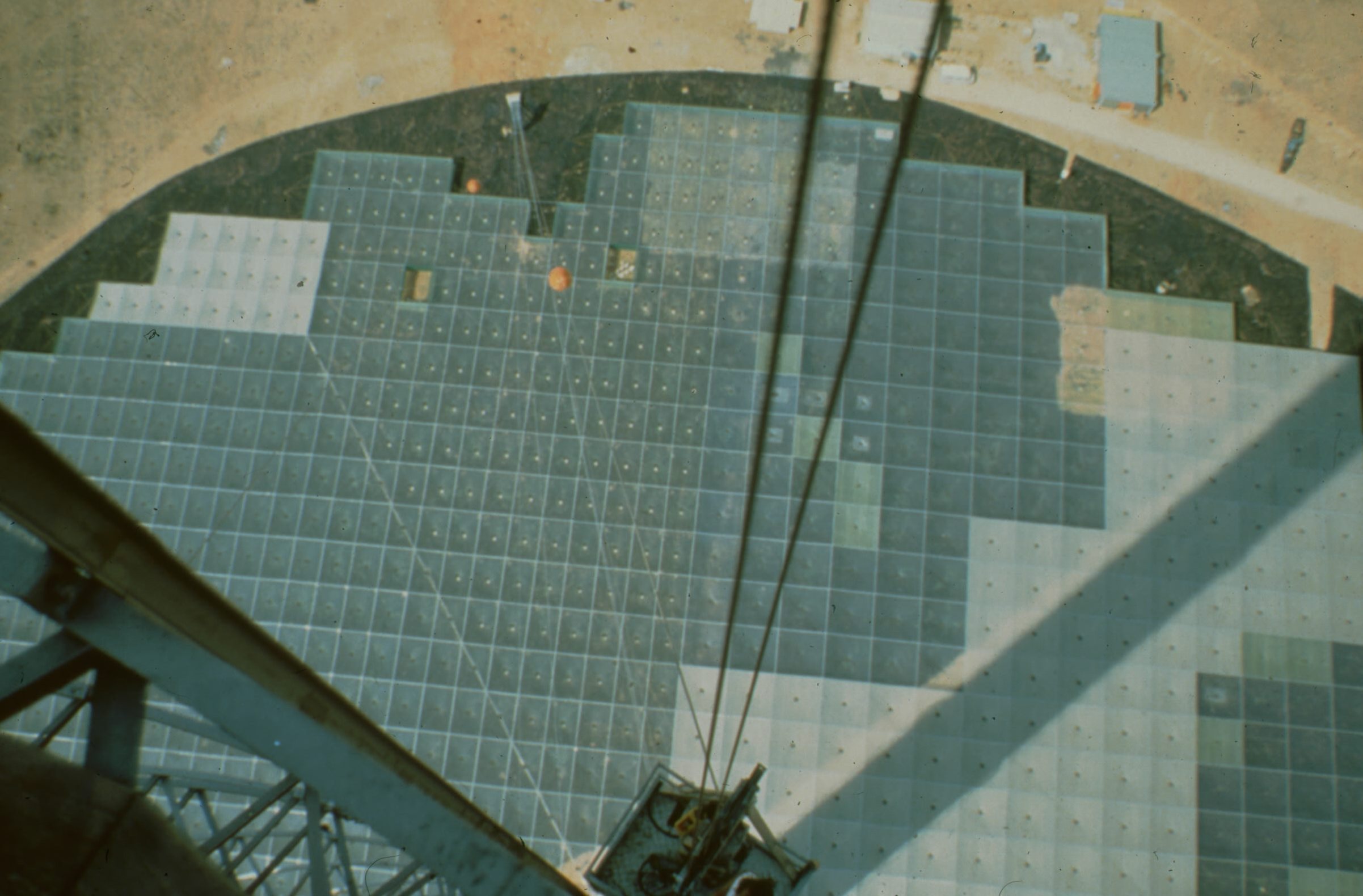 Solar Chimney prototype at Manzanares, Spain. View of the blackened collector soil from the tower